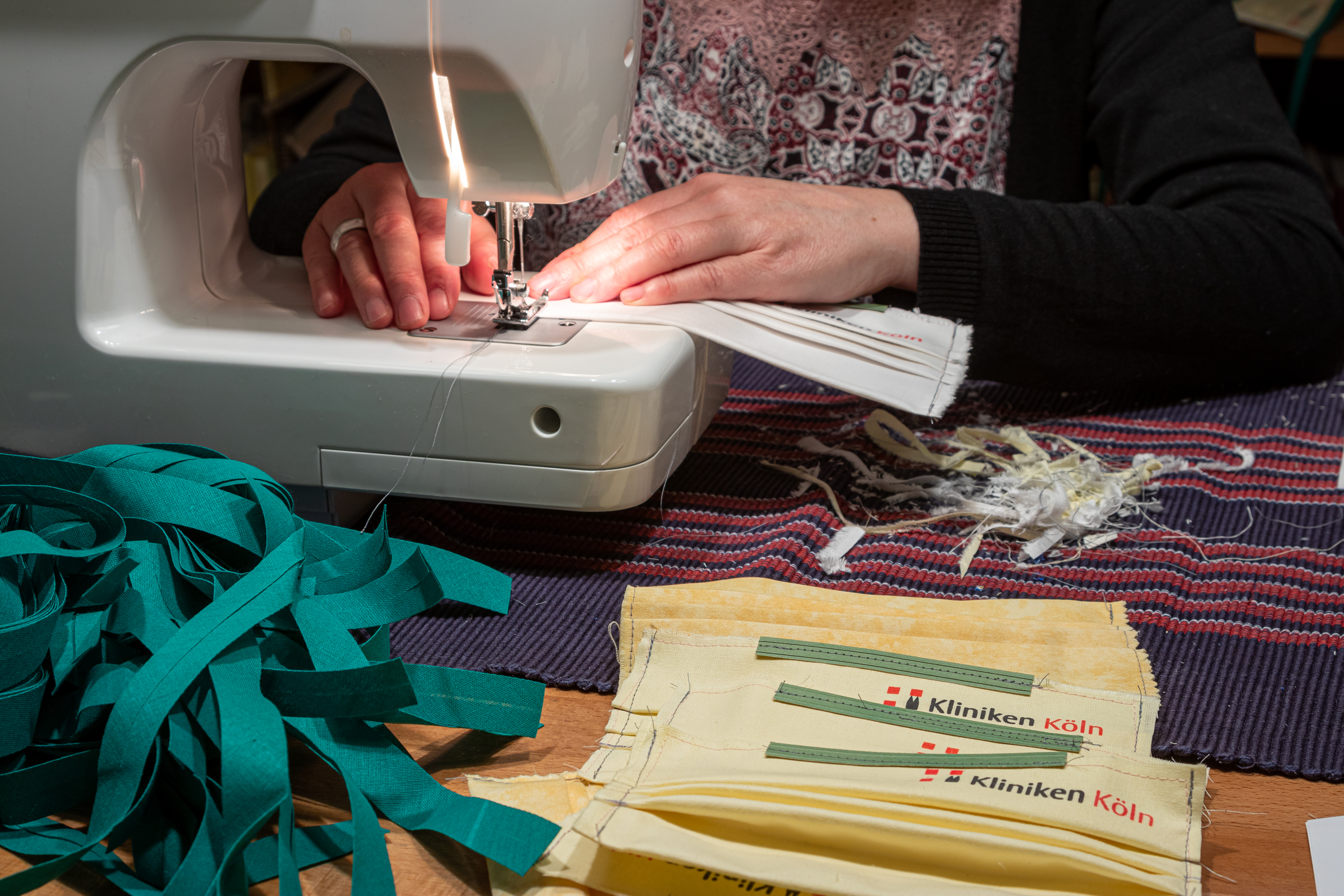 Production of mouth and nose protection for Cologne hospitals by volunteers during the COVID-19 pandemic in Cologne. The Cologne hospitals provided the materials, which volunteers sewed the masks from in home work.